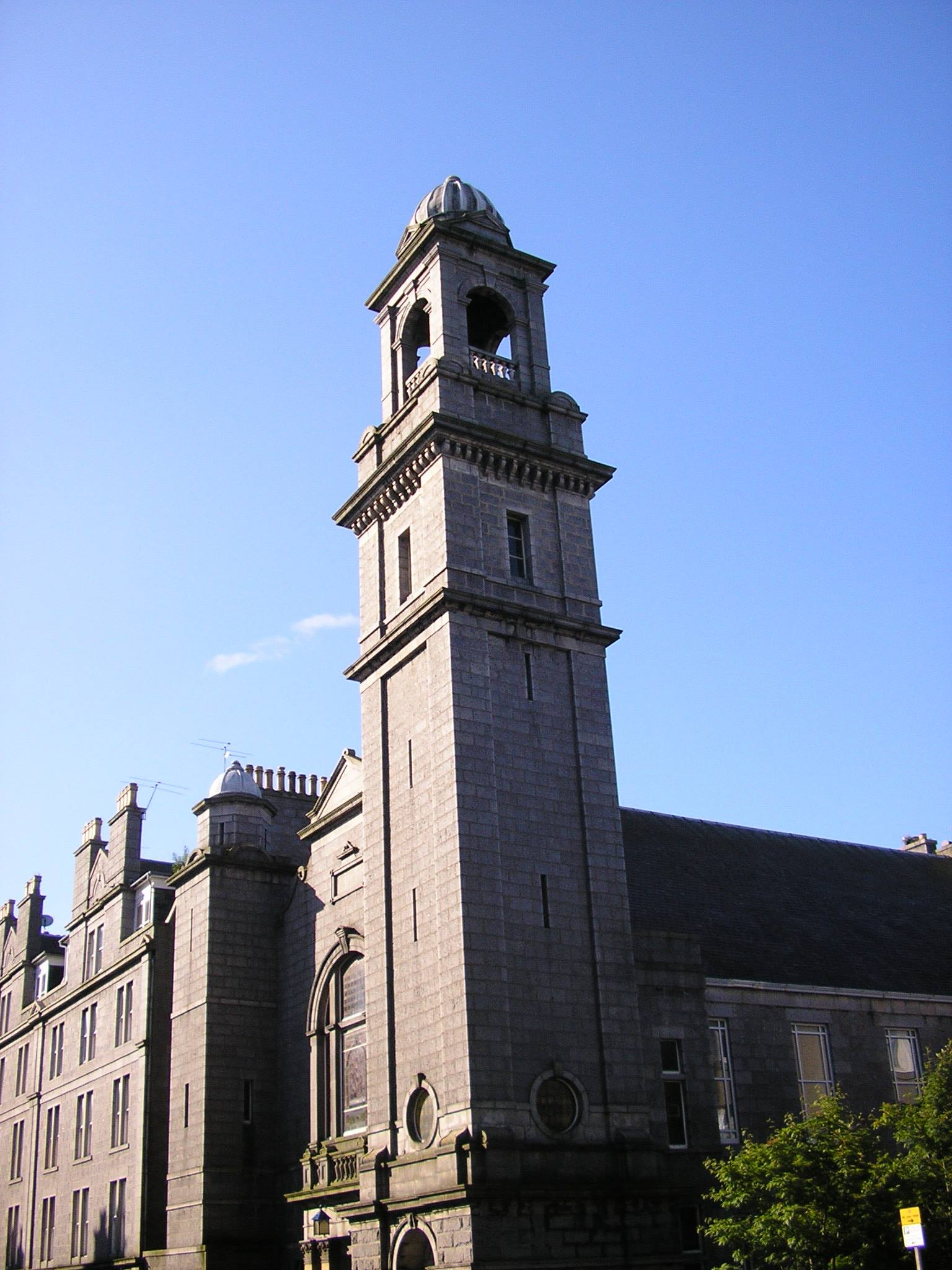 BonAccordFreeChurch Building, Aberdeen